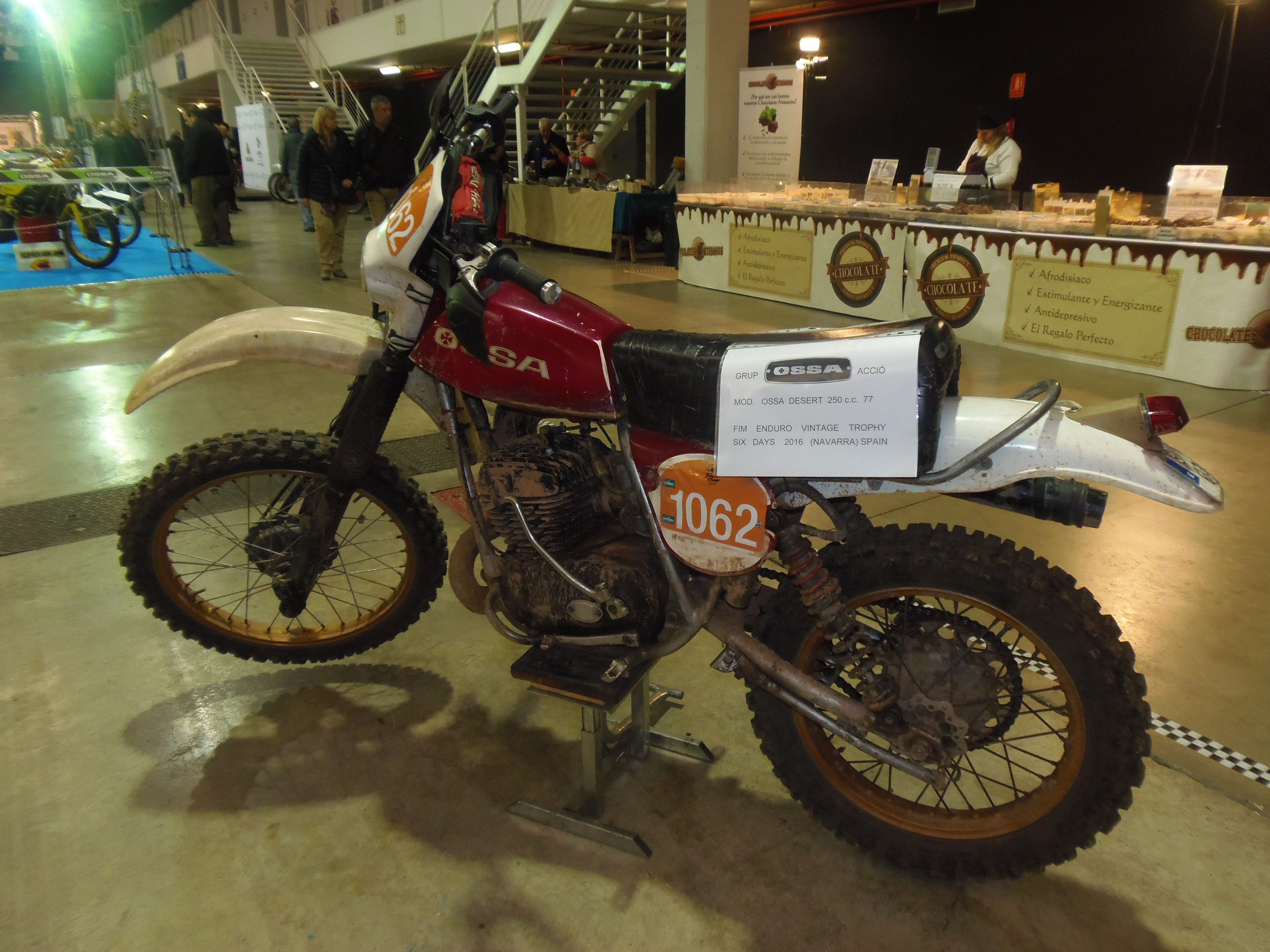 OSSA Desert 250, 1977. It participated in the 2016 FIM Enduro Vintage Trophy, during the 90th ISDE (Navarre)